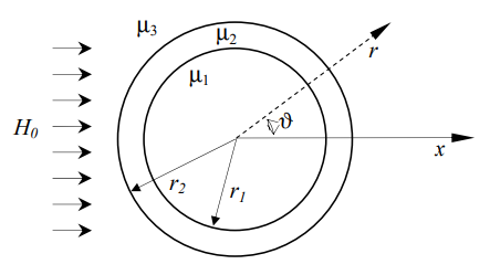 termpapaper7